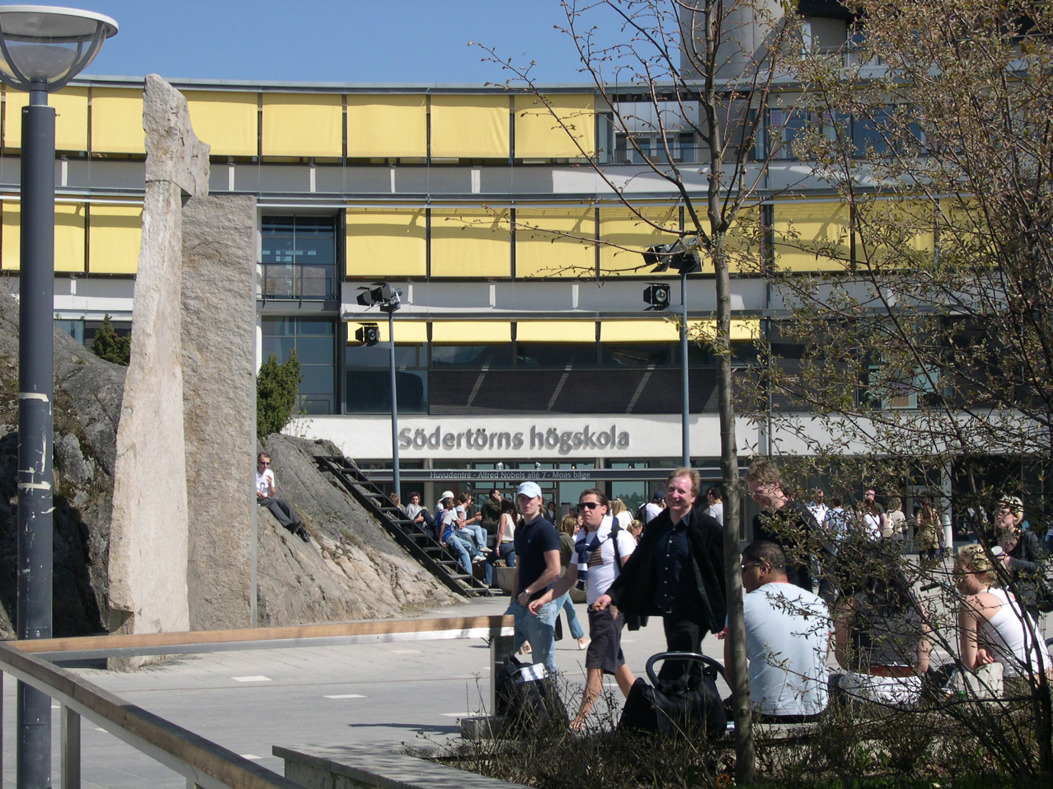 Södertörn University, Entrance